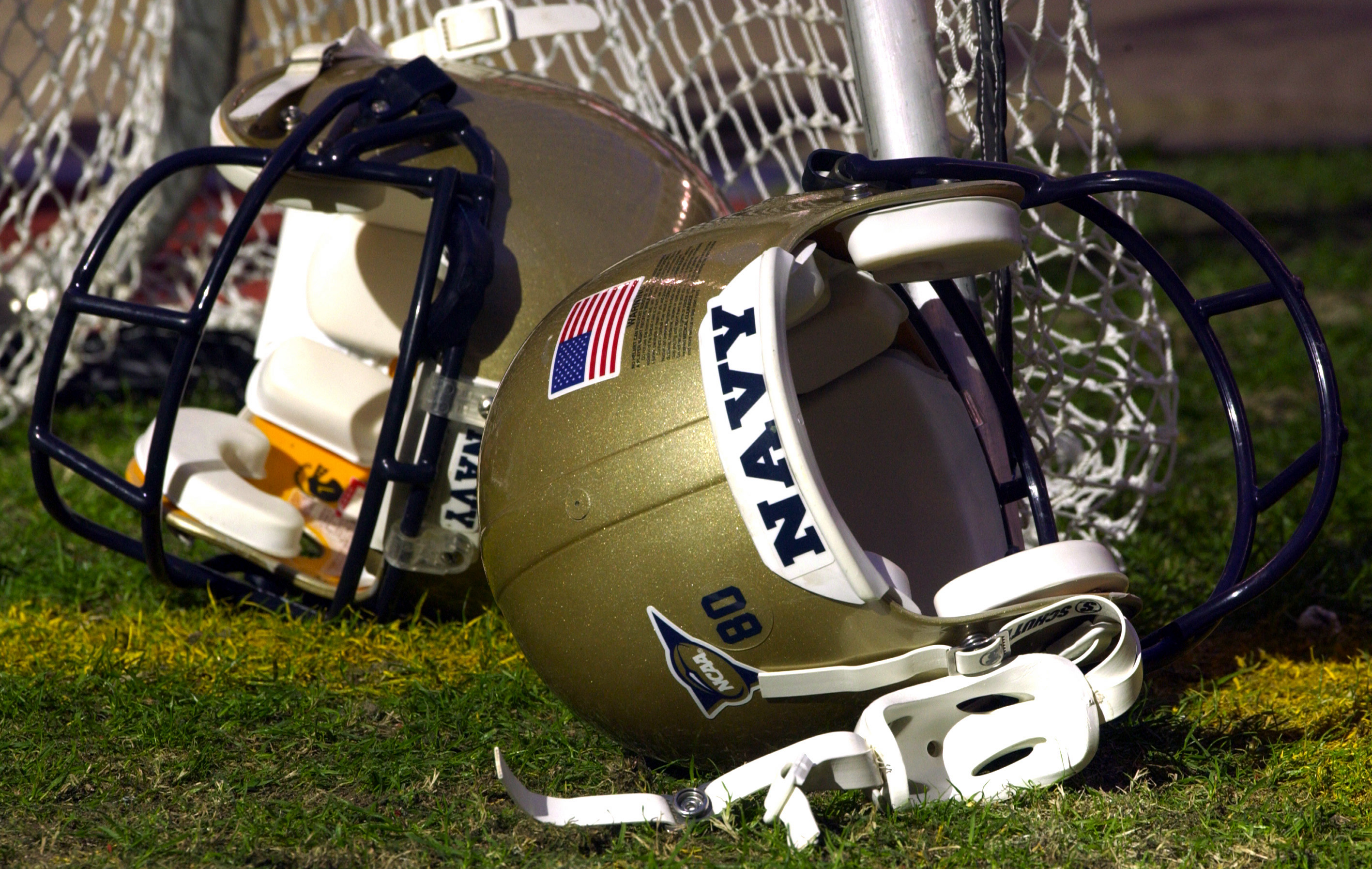 Houston, Texas (Dec. 30, 2003) -- A pair of Navy helmets lays on the field prior to the Houston Bowl at Reliant Stadium in Houston, Texas. The Midshipmen of the U.S. Naval Academy lost to the Texas Tech Red Raiders, 38-14, leaving Navy with an 8-5 record on the year. Navy boasted the top rushing offense in Division 1-A, while Tech had the nation’s leading passing offense. U.S. Navy photo by Damon J. Moritz. (RELEASED)